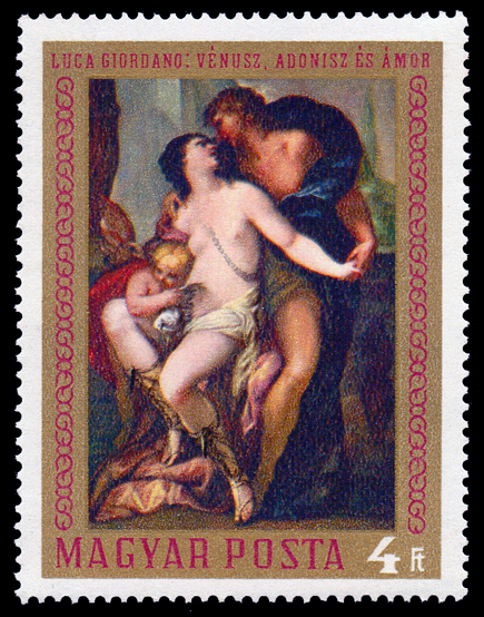 Paintings - Venus, Adonis and Cupid Denomination: 4 Forint